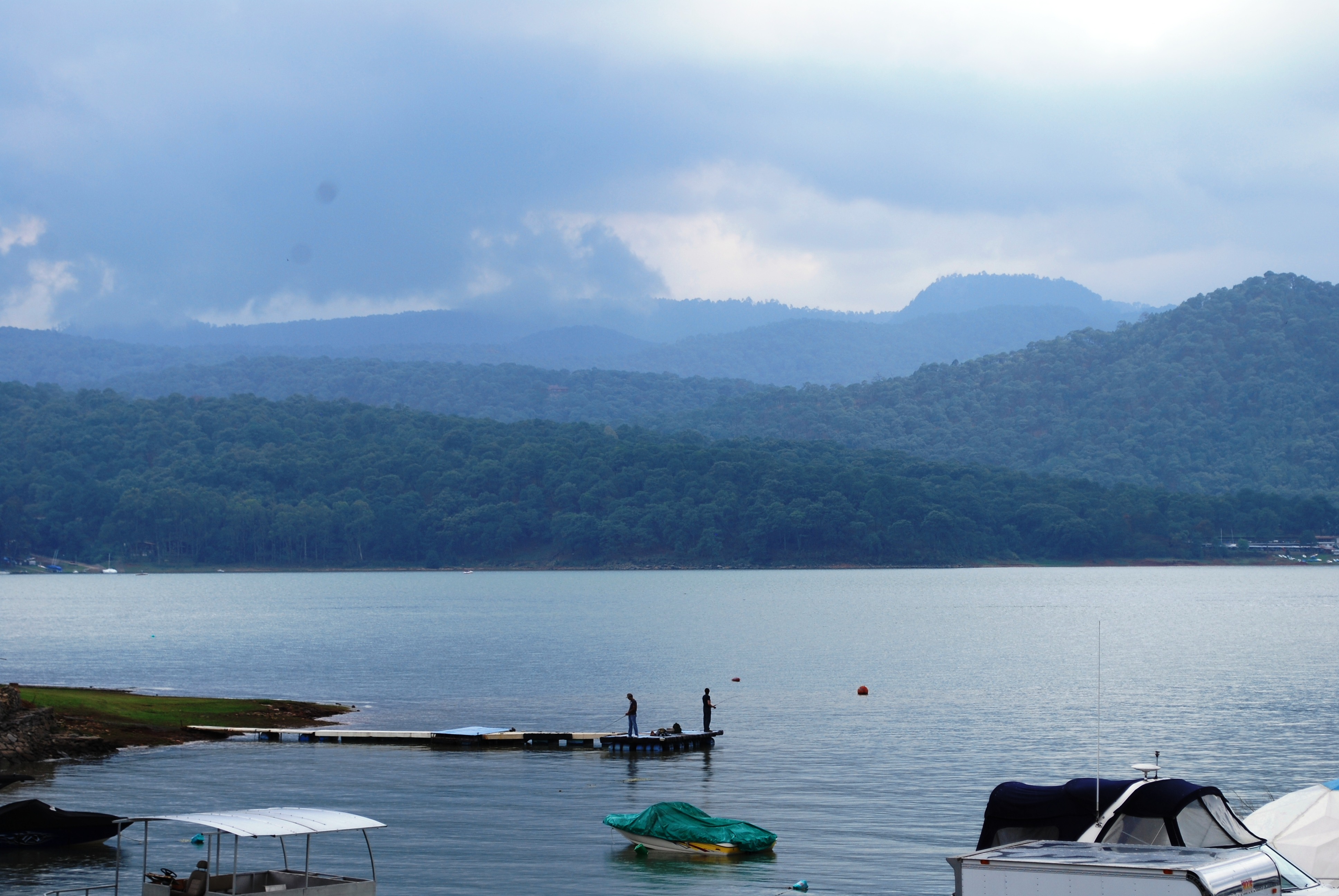 Fishing off a dock in Valle de Bravo